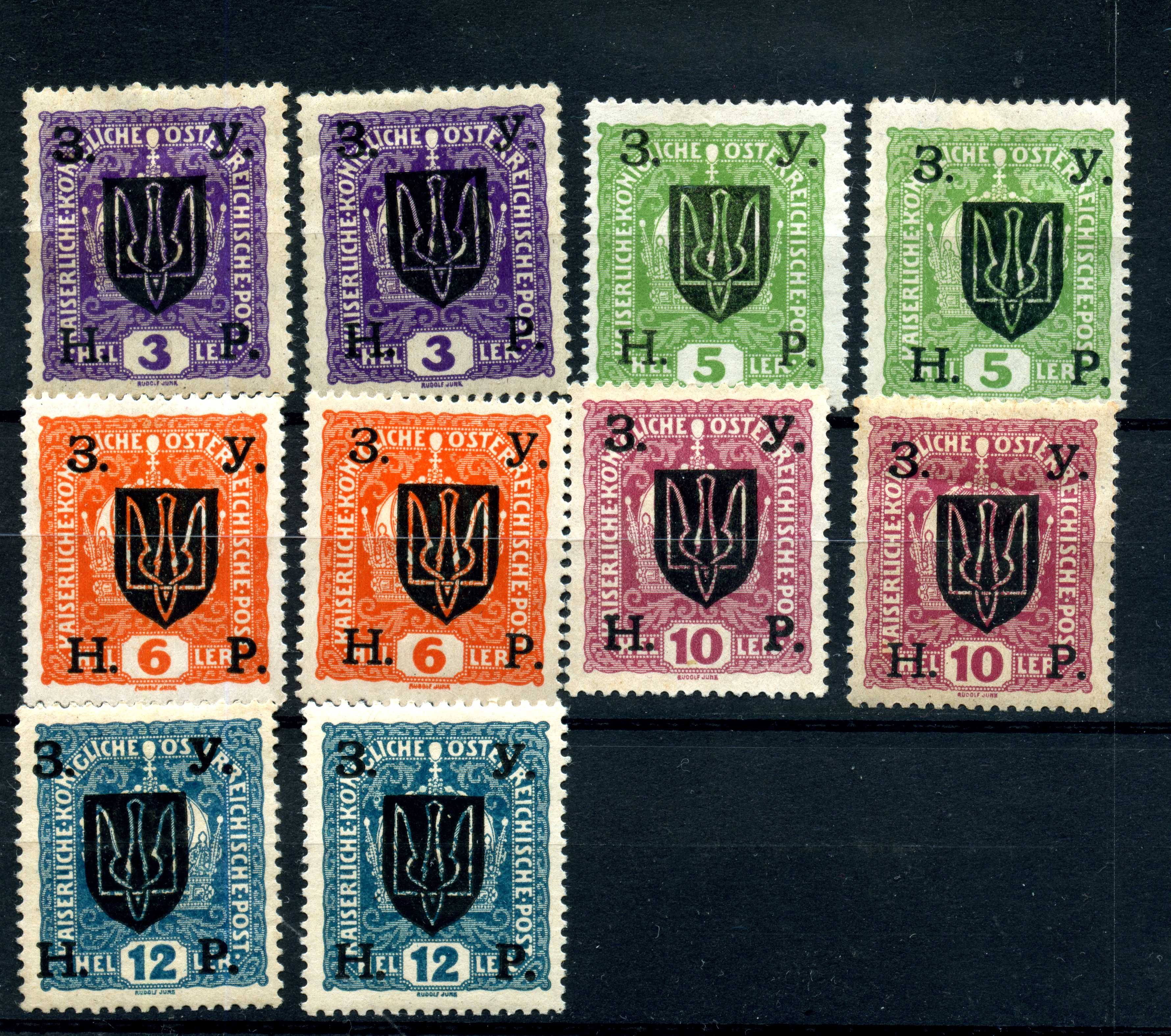 Post stamps of Ukraine